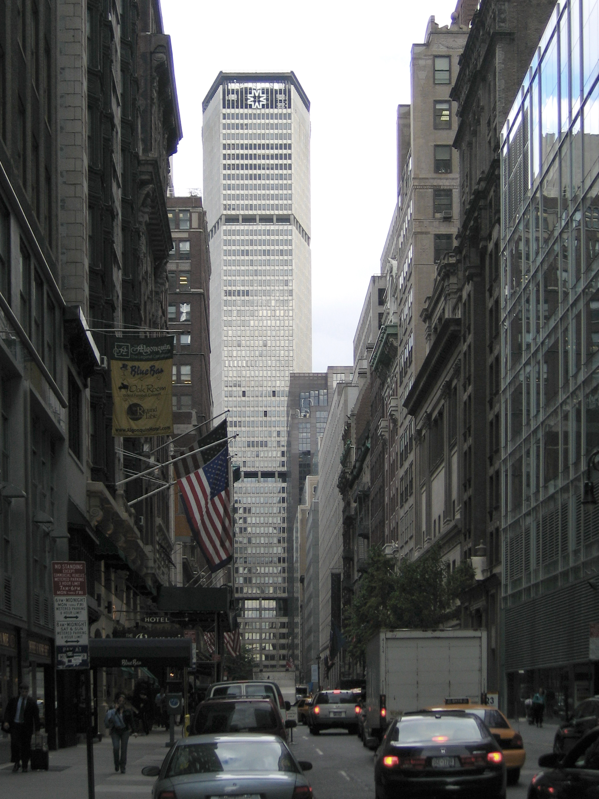 Side view of MetLife Building looking east down 44th Street, Manhattan, New York City.